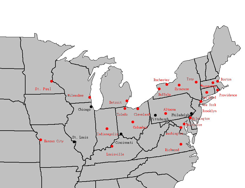 Cities that hosted MLB teams priors to 1900. Cities with 19th century teams that still play in the city are in black, while the other cities are in red. The leagues that are included are the National League, the Players' League, the Union Association, and the American Association. Data from Baseball Reference.